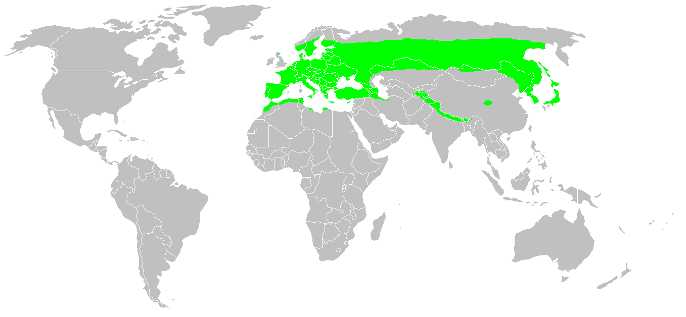 Distribución geográfica del género Chrysanthia/Range of the genus Chrysanthia